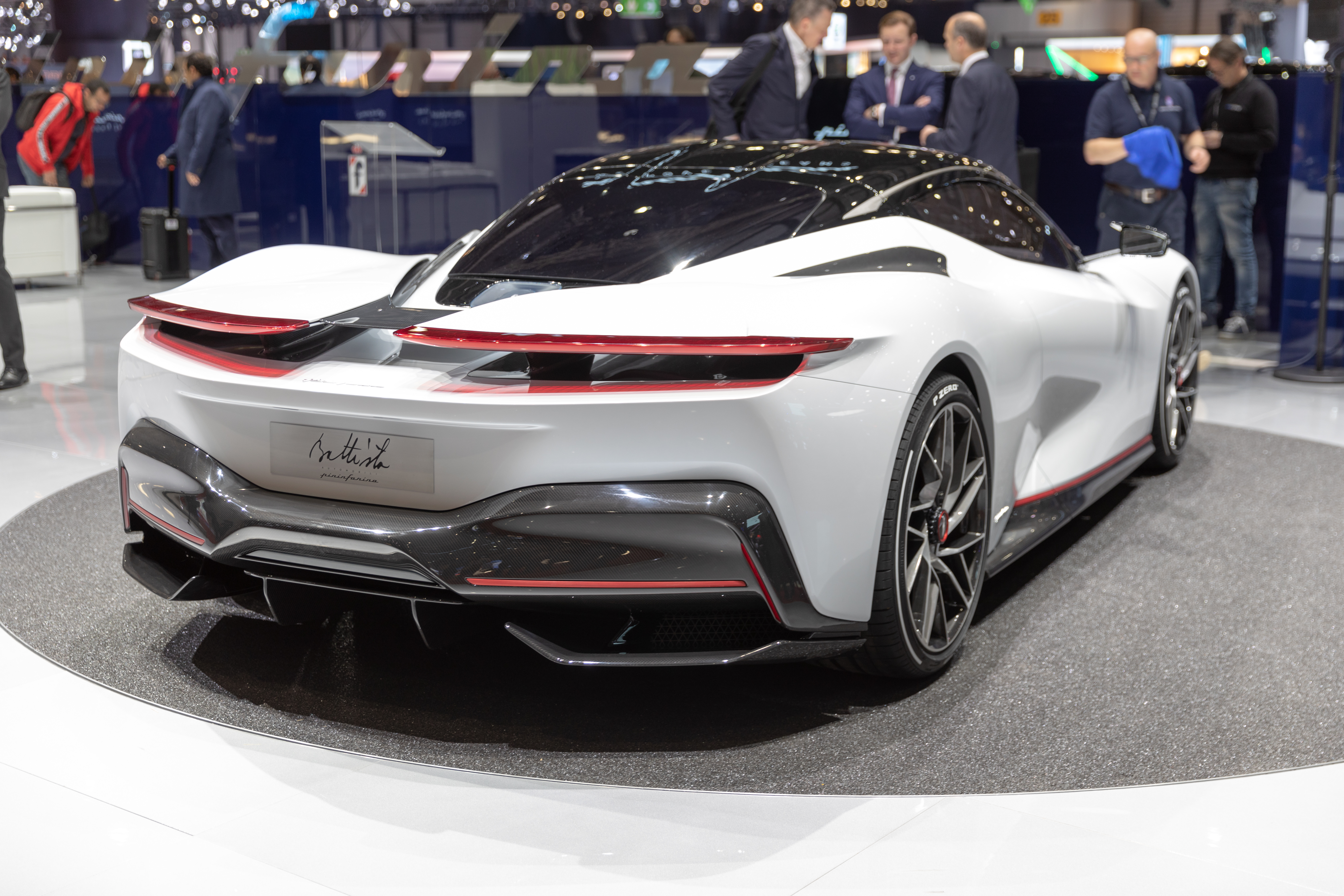 Pininfarina Battista at Geneva International Motor Show 2019, Le Grand-Saconnex